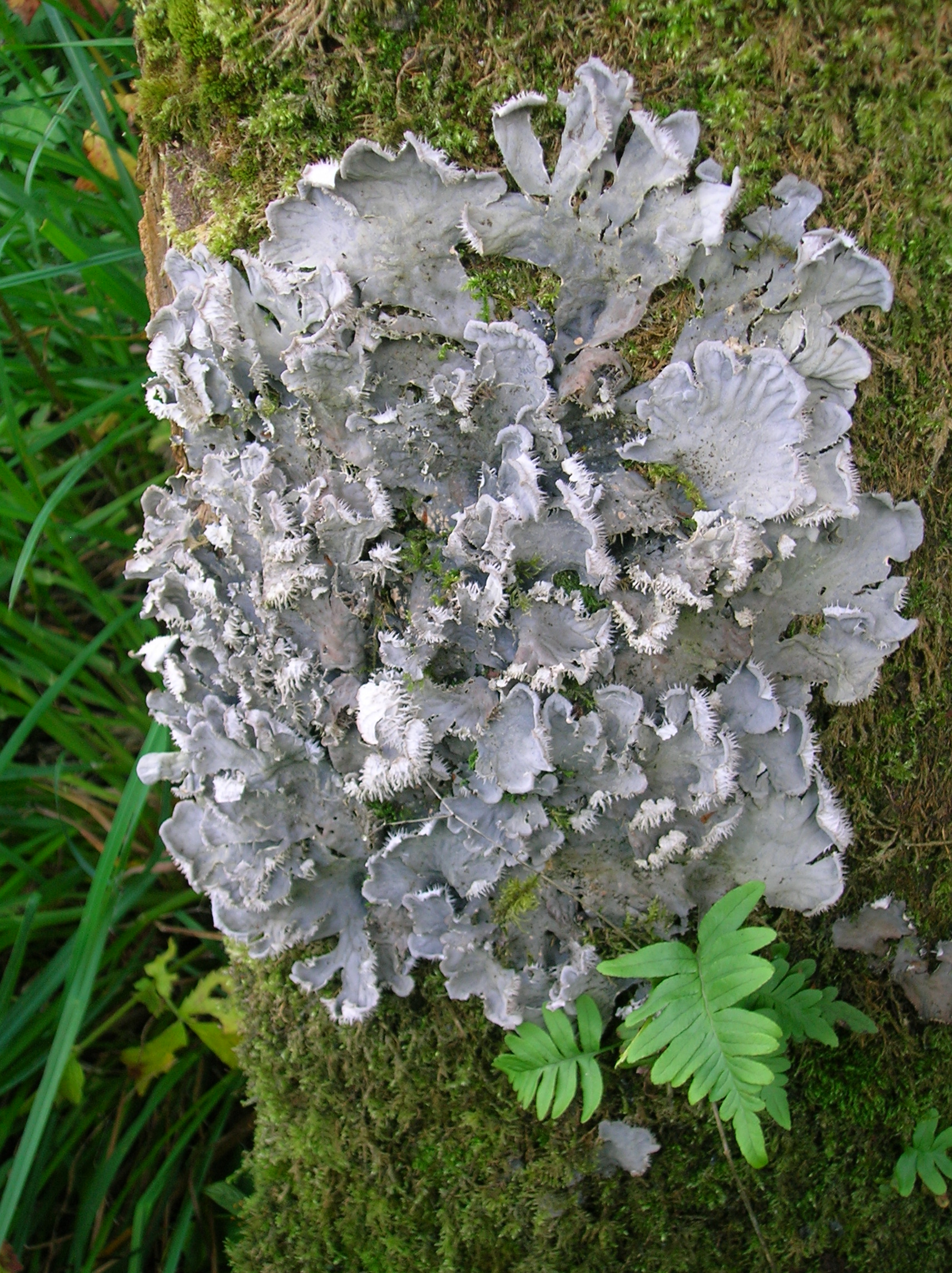 The Dog Lichen (Peltigera canina) on tree at Dundonald, South Ayrshire, Scotland